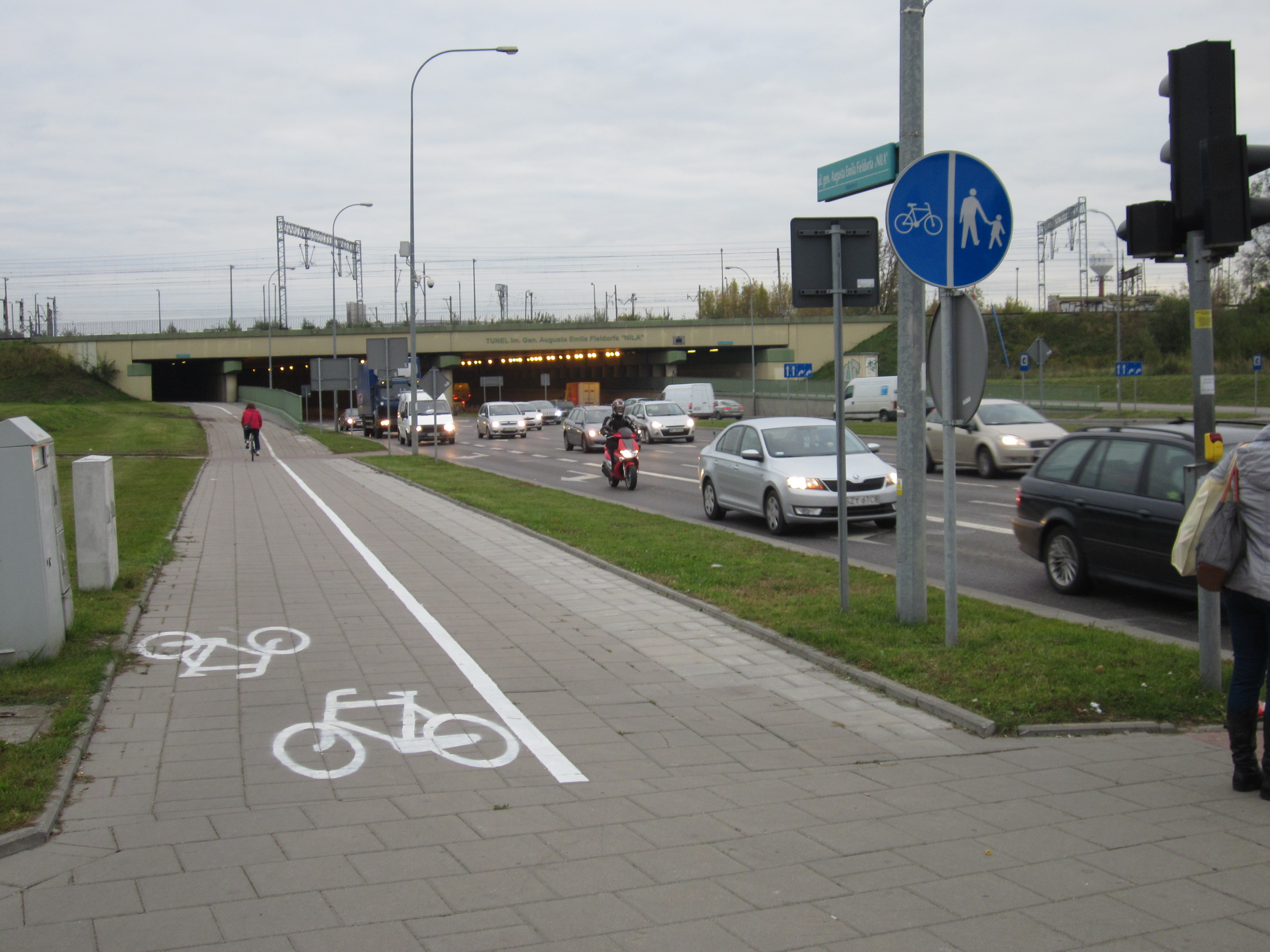 Tunnel in Białystok named Gen. August Emil Fieldorf.